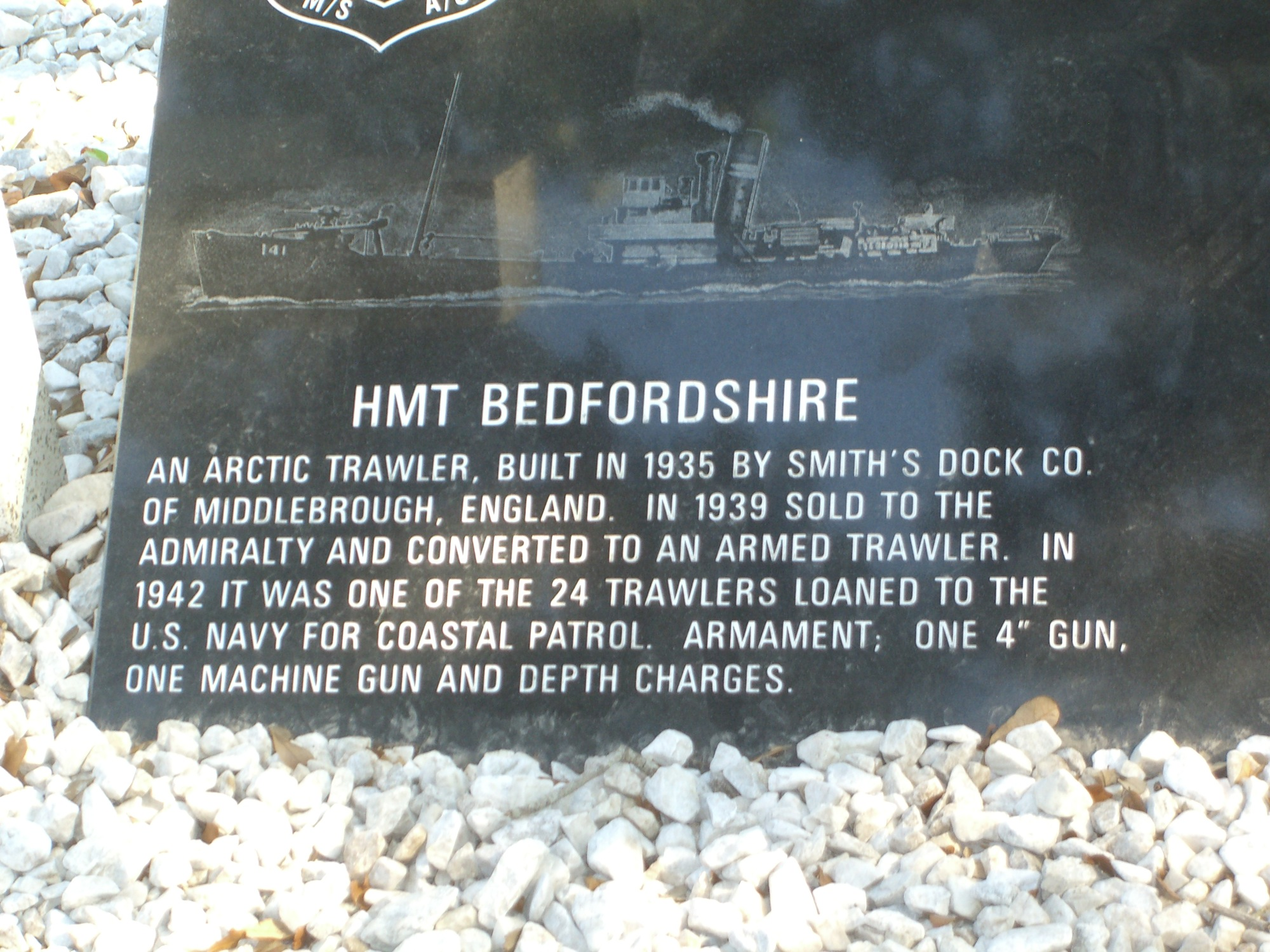 Commemorative plaque at the British Cemetery at Ocracoke Village, North Carolina, describing the naval trawler HMT Bedfordshire, sunk with all hands by U-558 on 11 May 1942, off the coast of Okrakoke Island..